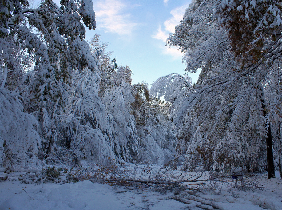 Trees heavy with snow, some of which have fallen across the road, the morning after the 2011 Halloween nor'easter, in Granby, CT